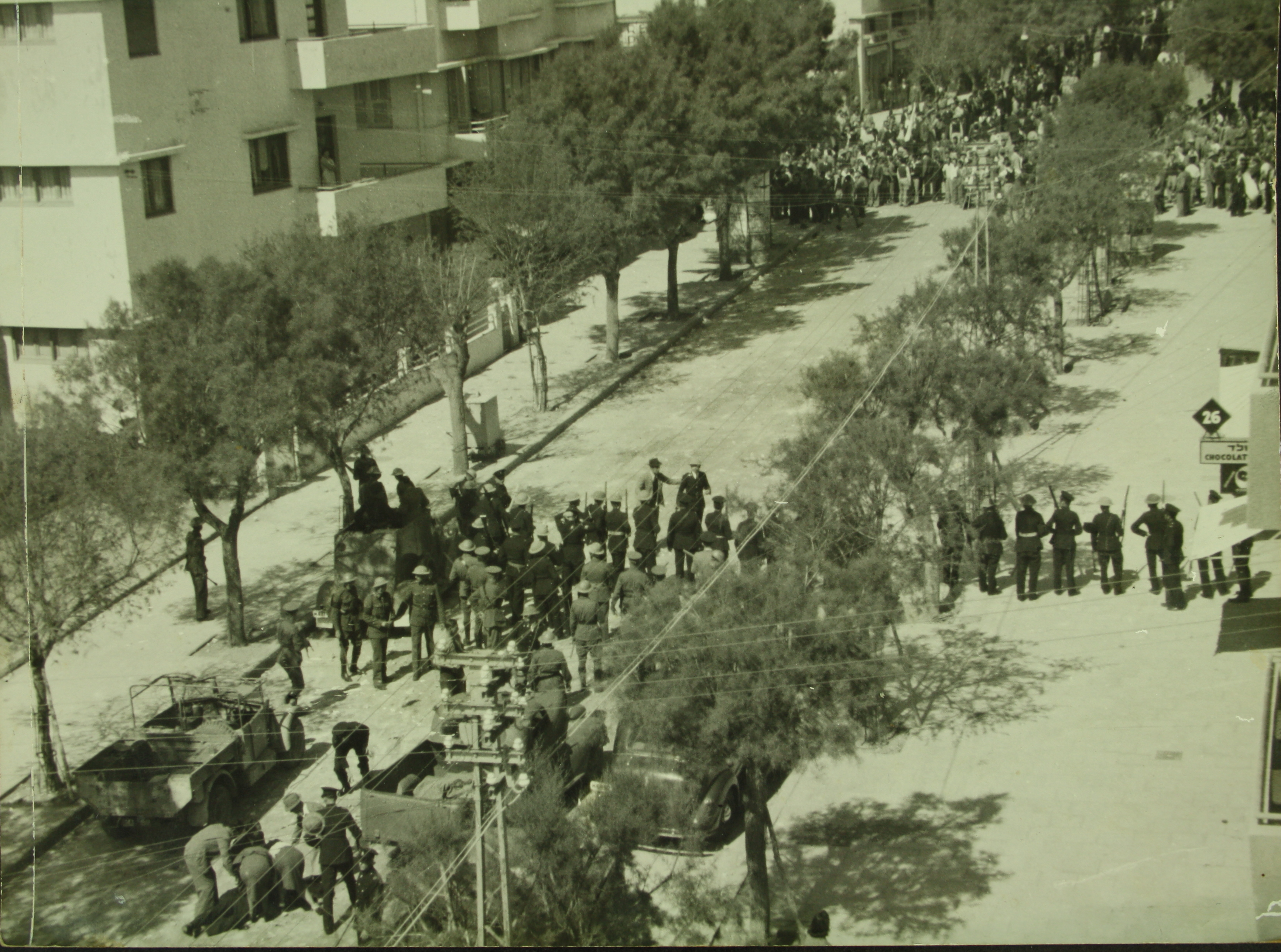 Demonstration in Tel Aviv against the British mandate policy.